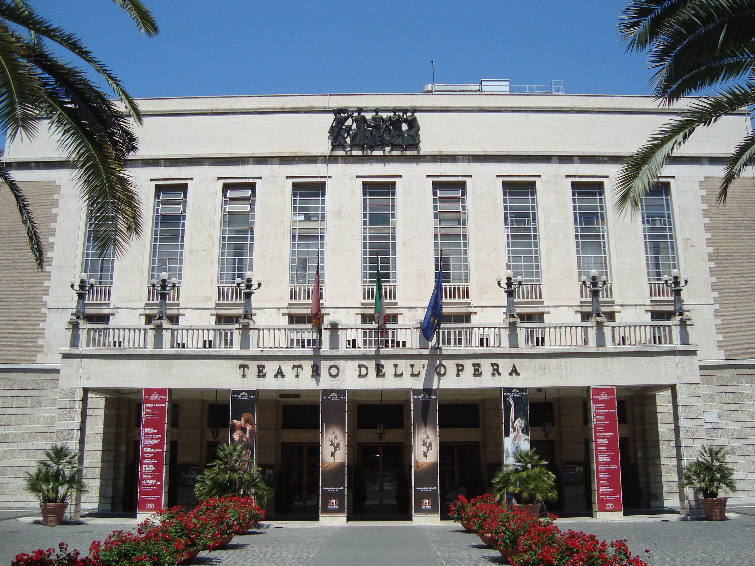 Entrance of the Teatro dell'Opera in Rome